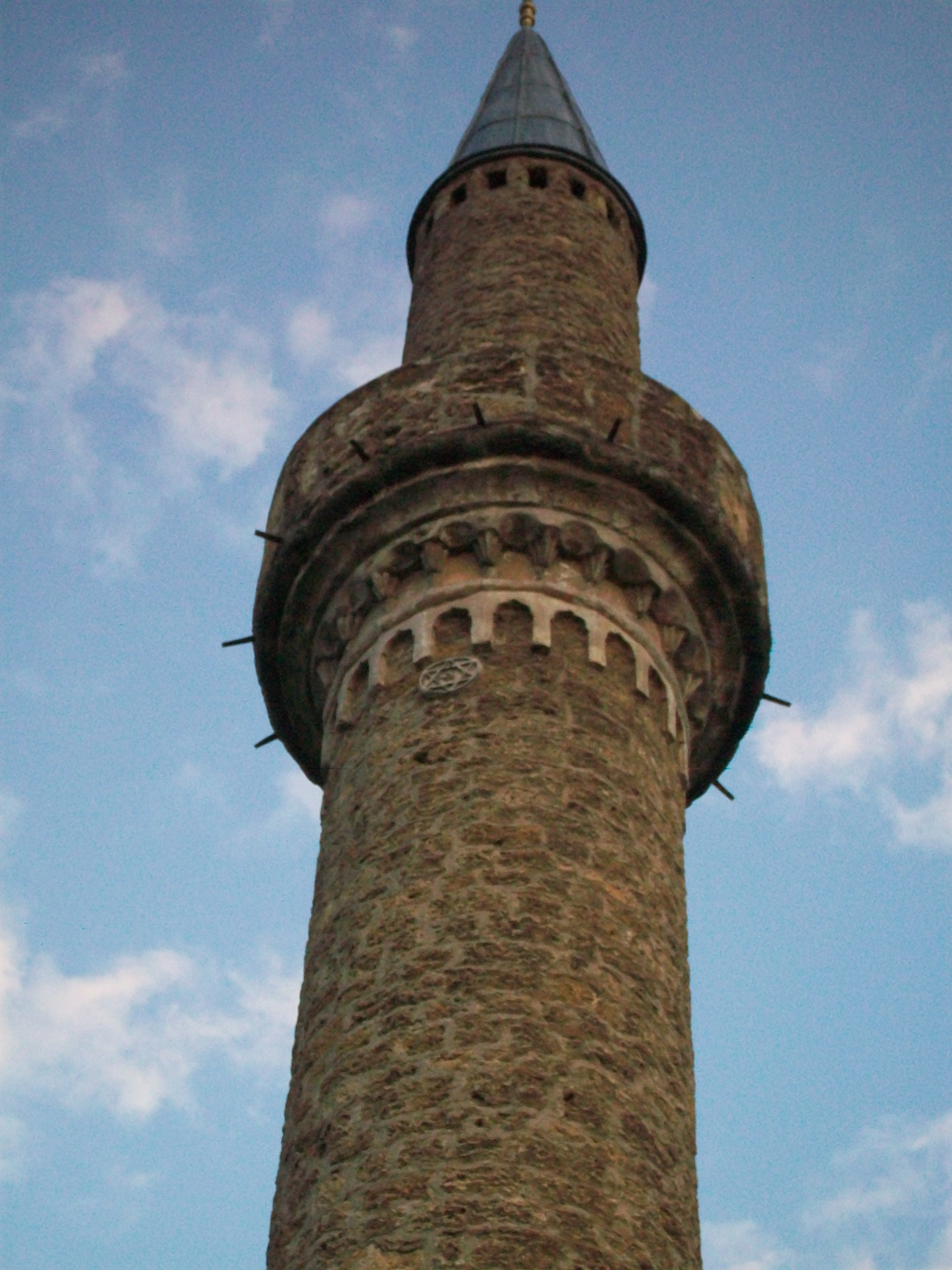 Pictures from Prizren Kosovo